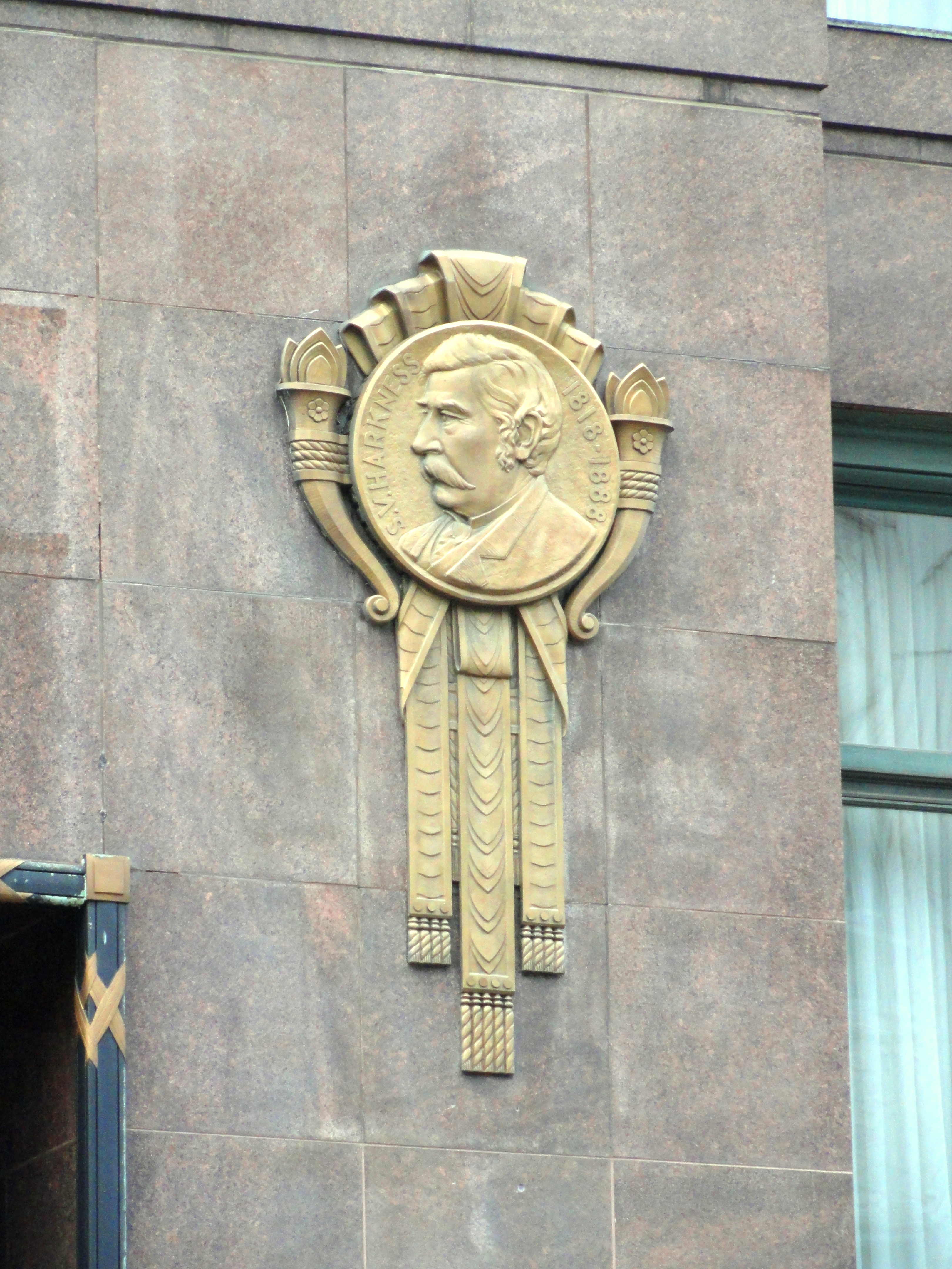 Cleveland Arcade, Cleveland, Ohio, USA. This artwork is in the public domain because the artist died more than 70 years ago.